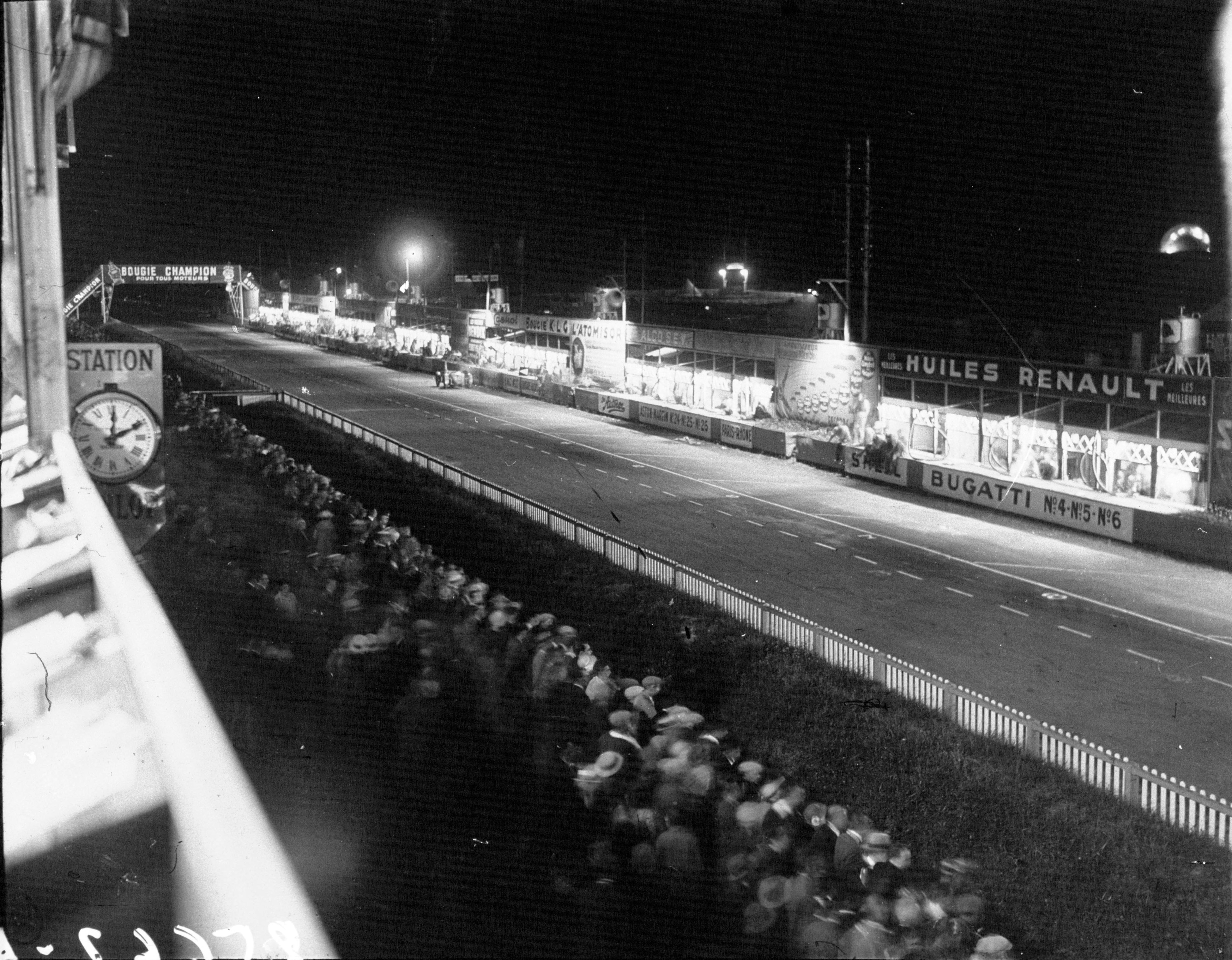 Pitting at night at the 1931 24 Hours of Le Mans.